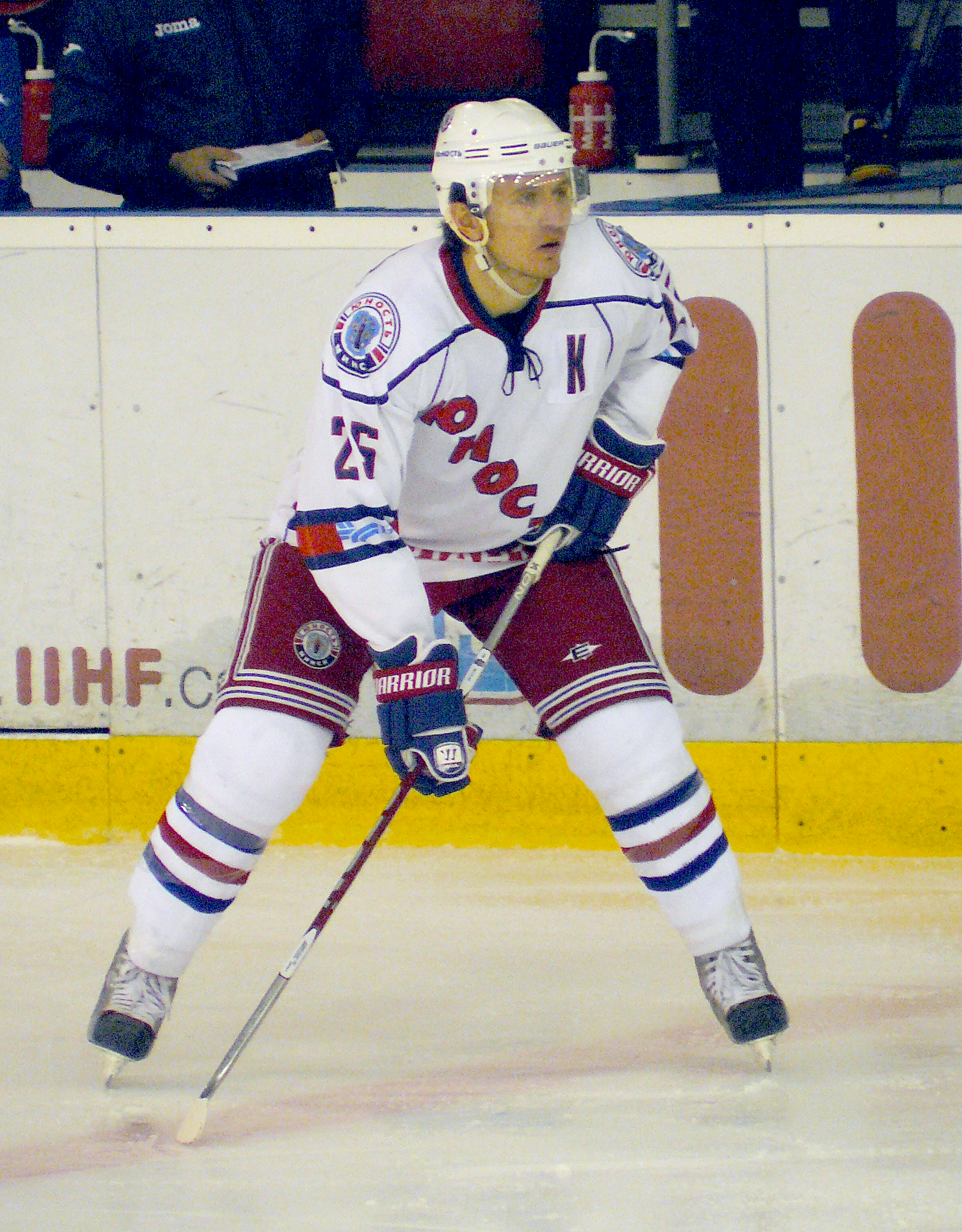 Defender Aleksandr Ryadinskiy #25 of the Yunost Minsk during the Belarus Extraliga game against the Sokil Kyiv on September 15, 2010 at the Terminal Arena in Brovary, Ukraine. Yunost Minsk won the game 2:1.